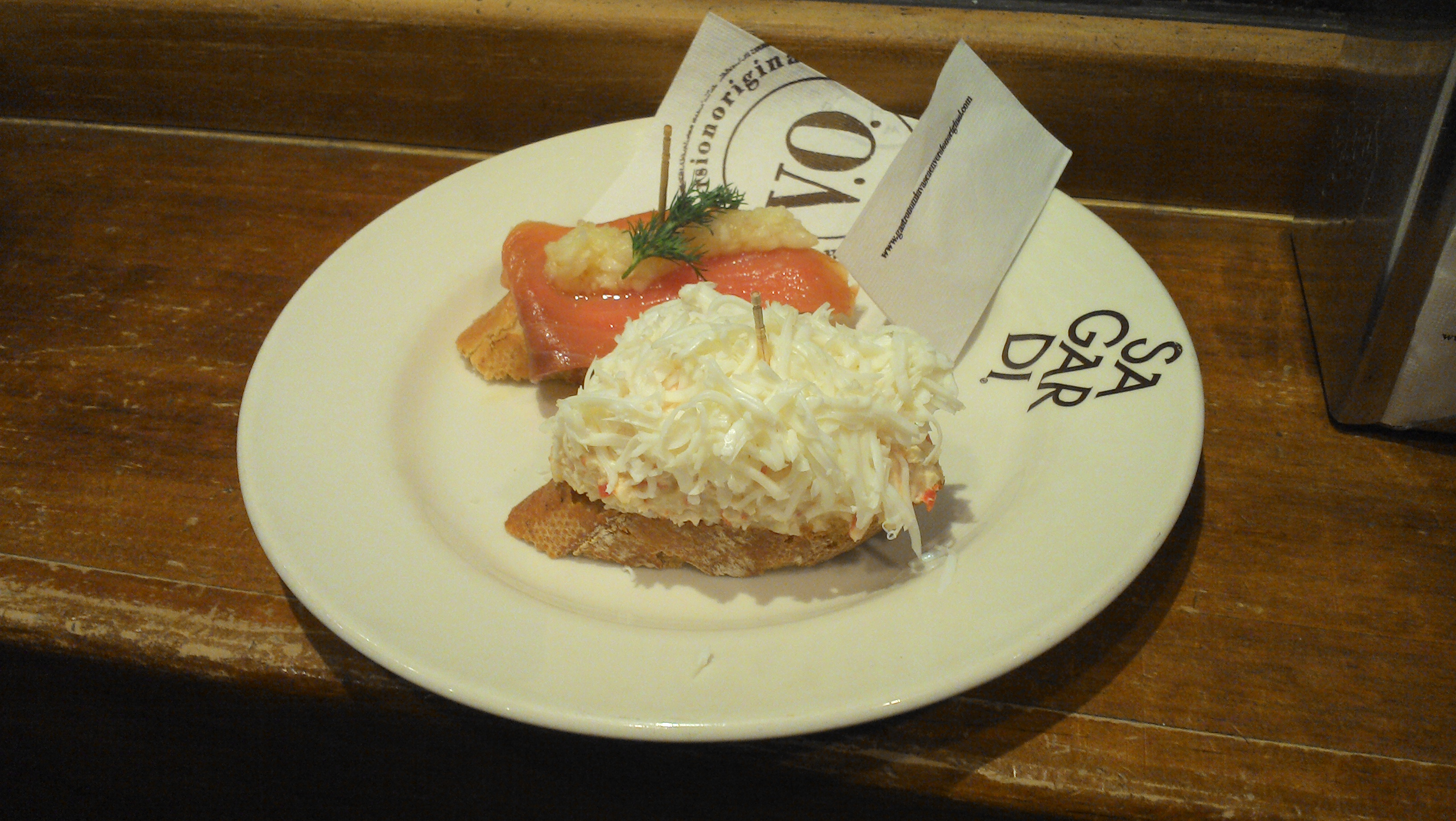 tapas